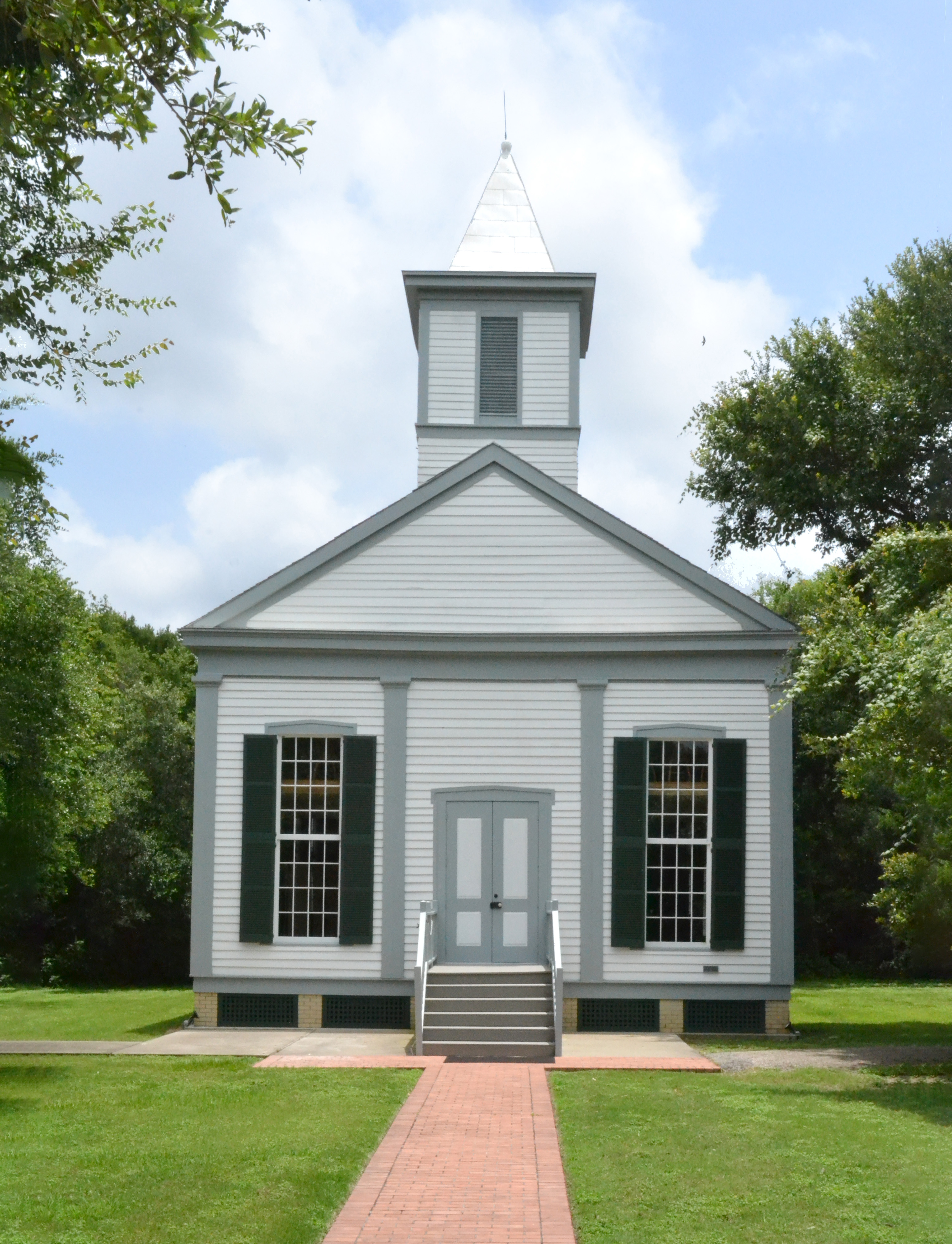 Texana Presbyterian Church in Lake Texana State Park, near Edna, Texas. Listed on the National Register of Historic Places.